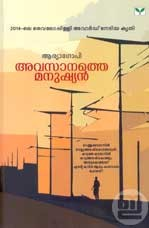 Book Cover